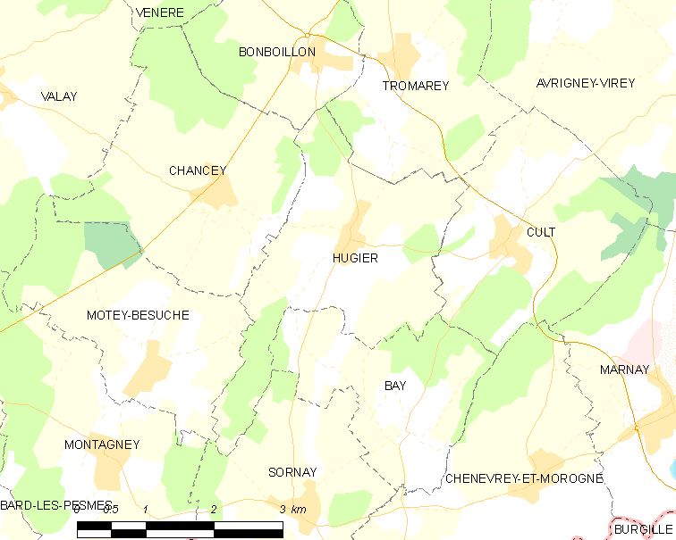 Map of French municipality